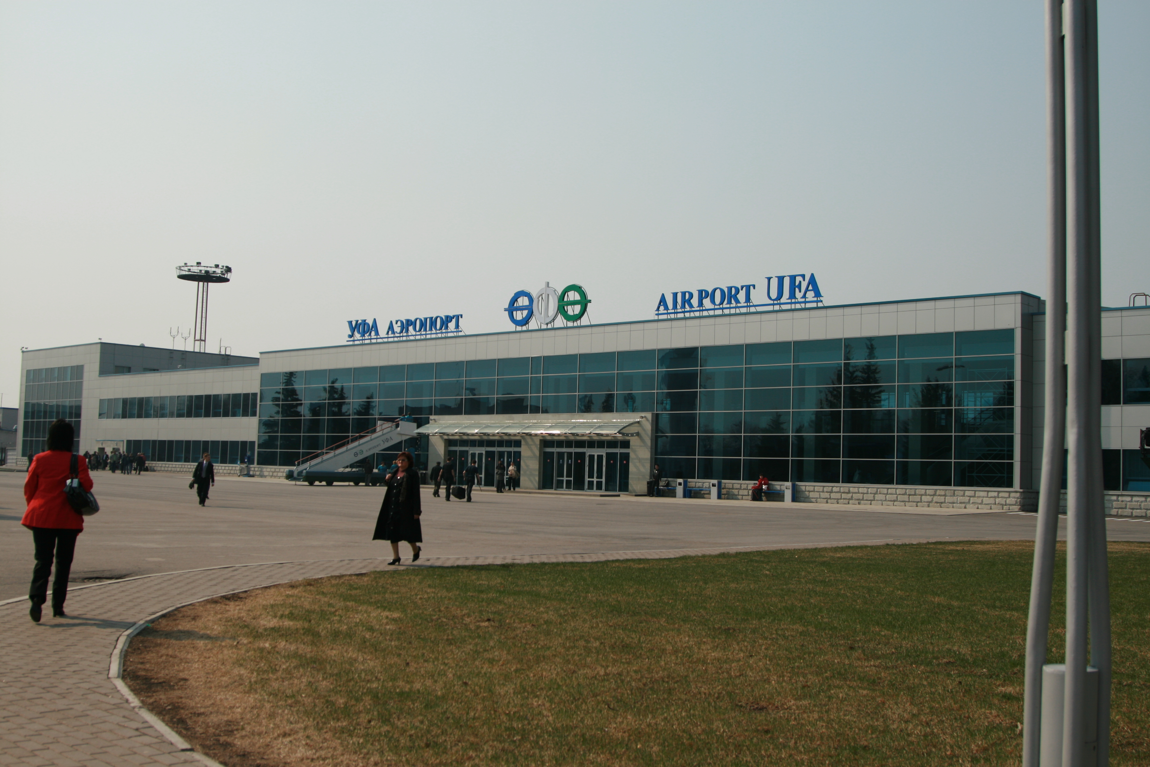 Ufa International Airport in 2009.